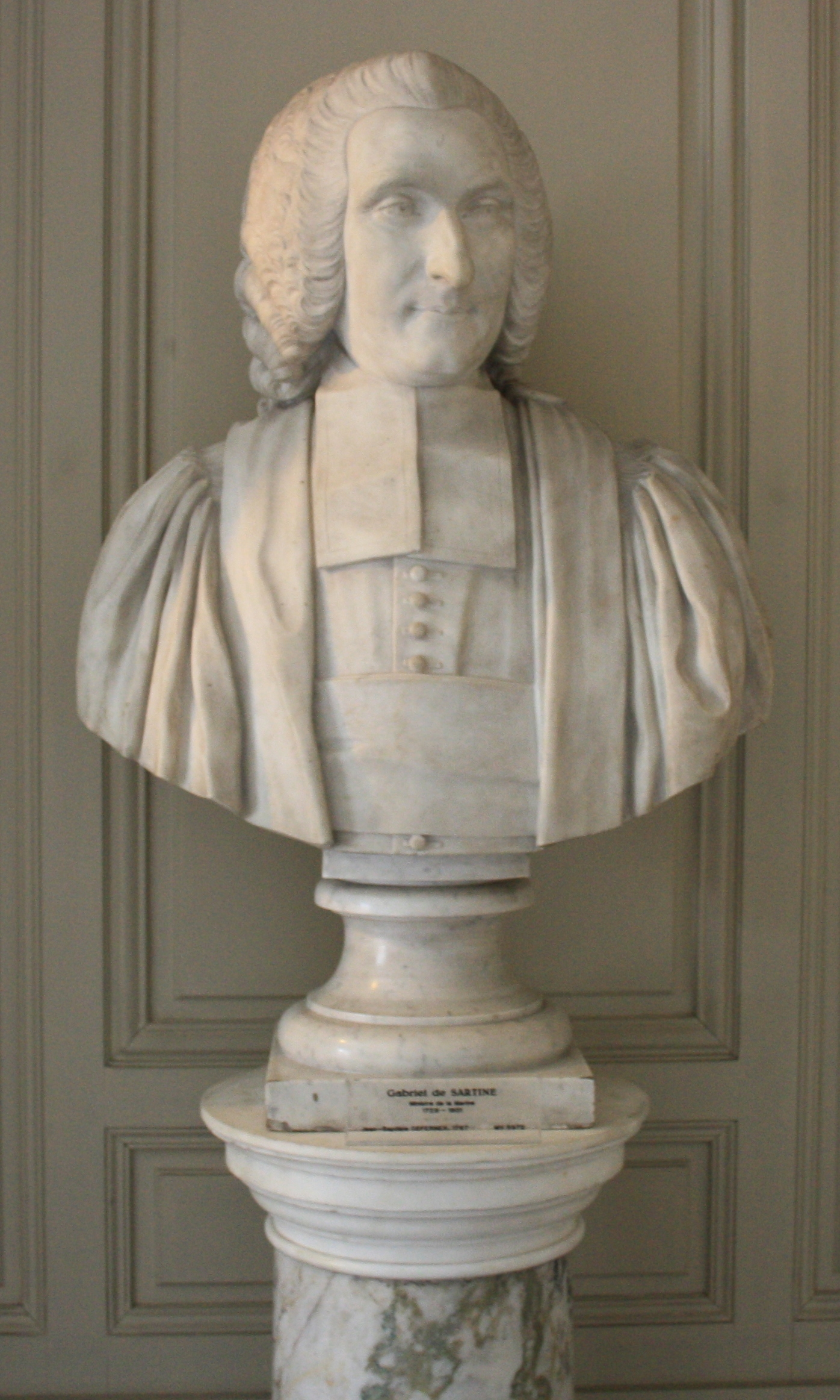 Statue of Antoine Gabriel de Sartine by Jean-Baptiste Defernex (1767) located in the petit appartement du roi (small apartment of the king) in the Palace of Versailles in Versailles, France